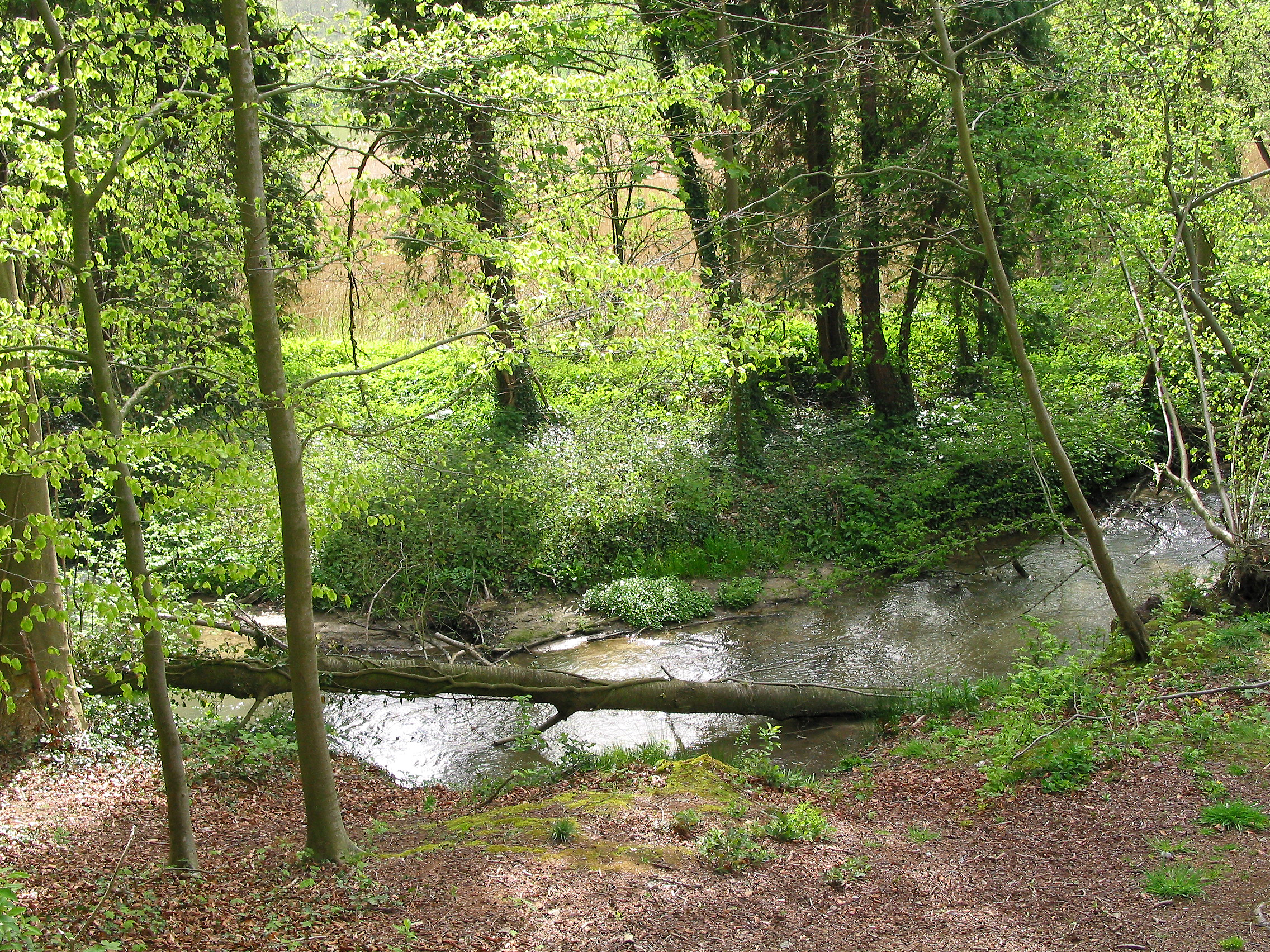 La Hulpe (Belgium), the Argentine brook in the park of the Solvay castle.